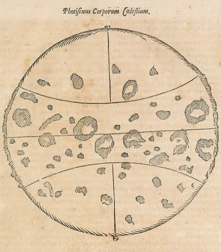 Illustration of sunspots from “Ars Magna Lucis et Umbrae”